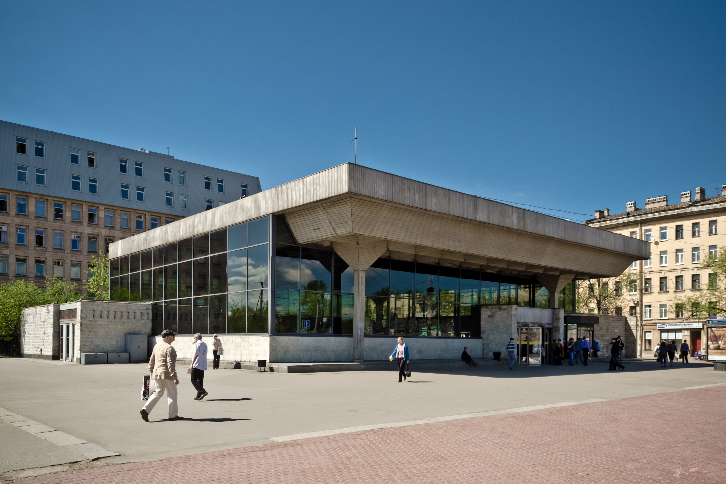 Vyborgskaya subway station of Saint Petersburg, pavilion